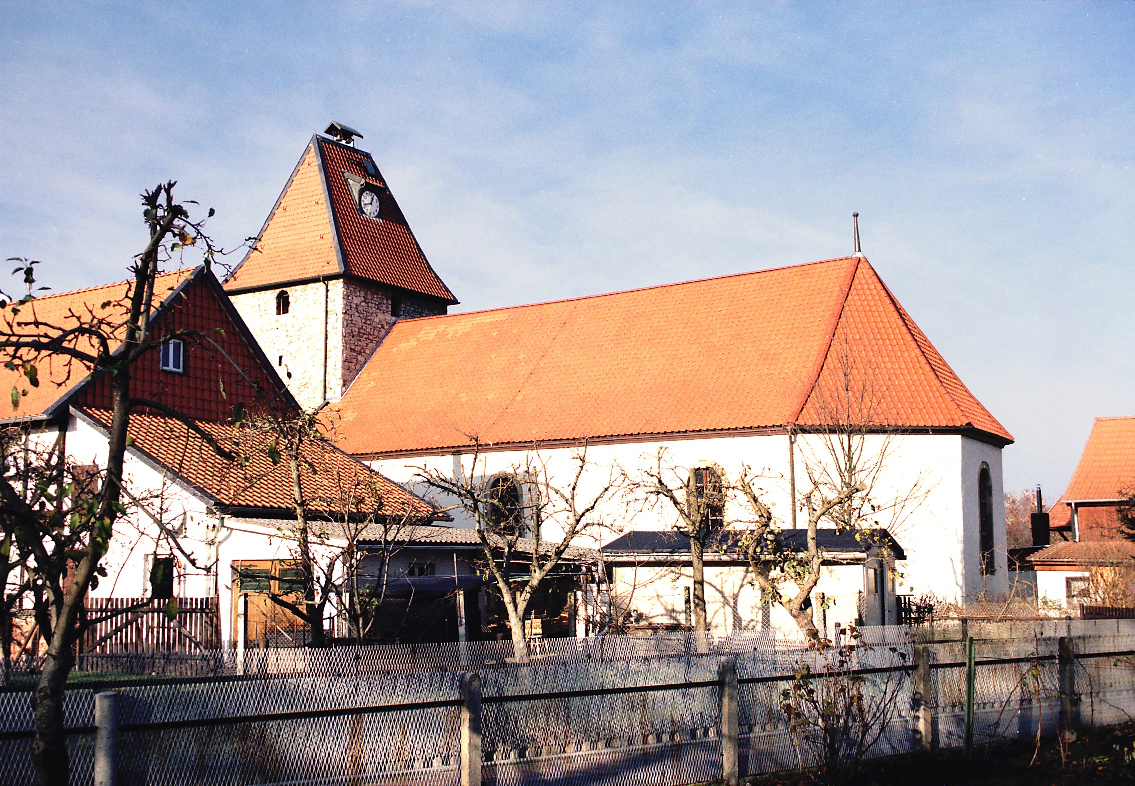 Bühne (Osterwieck), the village church